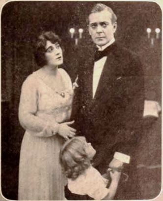 Still from the American drama film The Blindness of Divorce (1918) with Bertha Mann, Charles Clary, and Nancy Caswell, on page 17 of the March 23, 1918 Exhibitors Herald.